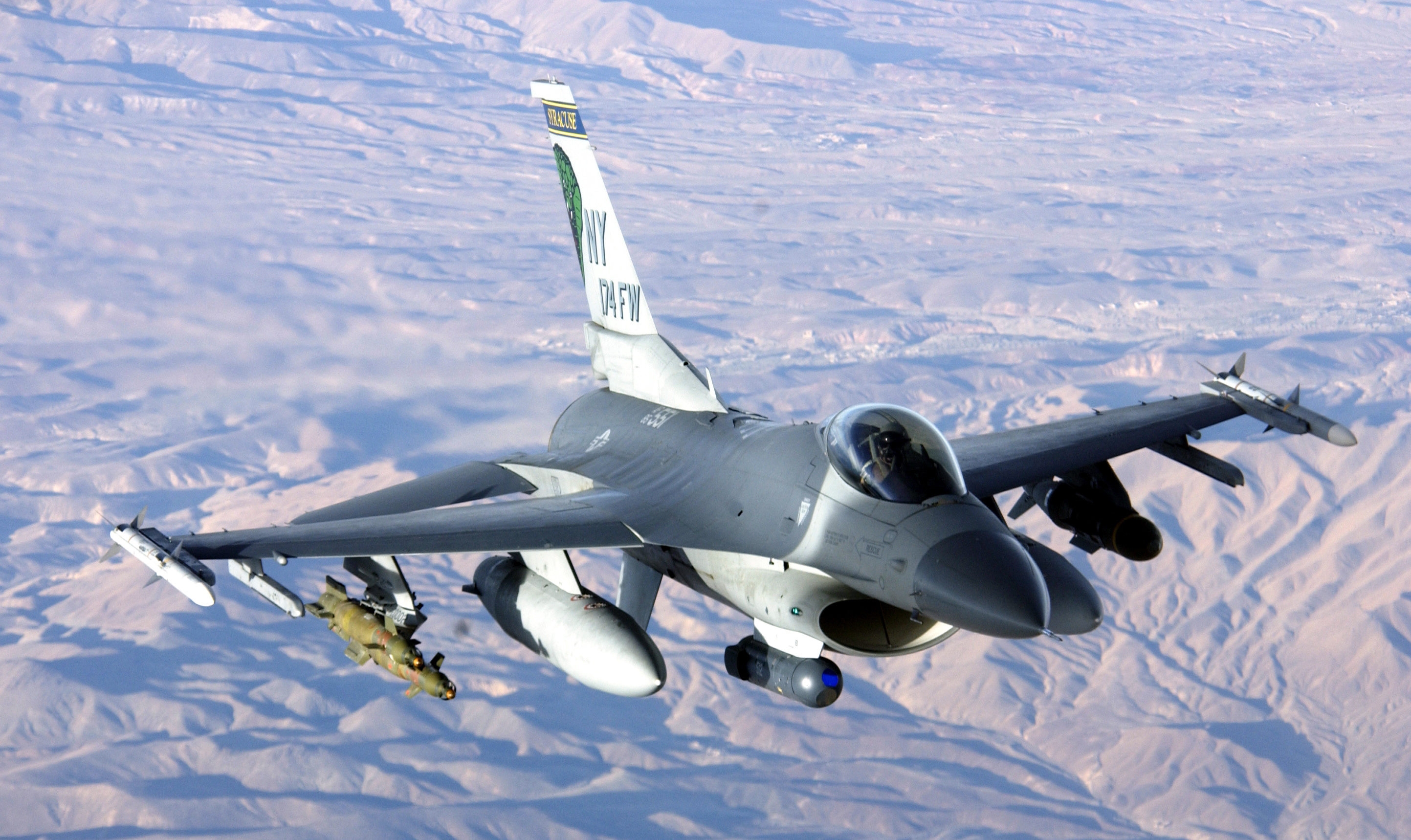 OPERATION ENDURING FREEDOM -- A F-16 Fighting Falcon from the 174th Fighter Wing, Syracuse, New York, soars over Afghanistan in support of Operation Enduring Freedom.